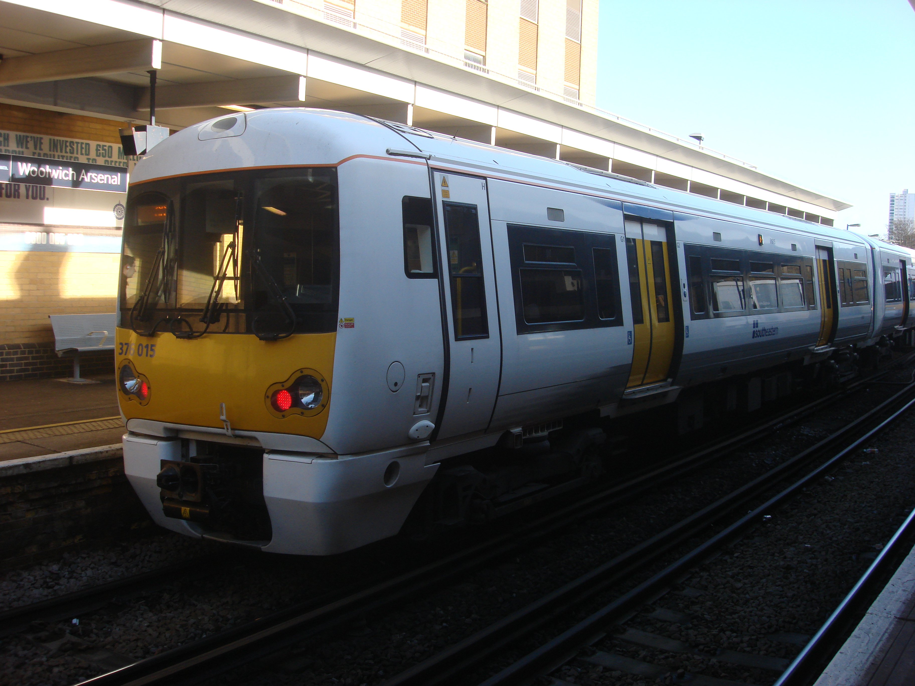 376015 at Woolwich Arsenal station